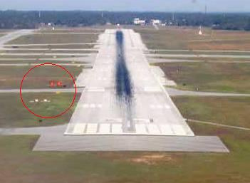 Visual Approach Slope Indicators on runway 35 at Pensacola Regional Airport (KPNS).